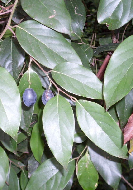 Cryptocarya rigida, leaves & fruit - Cumberland State Forest